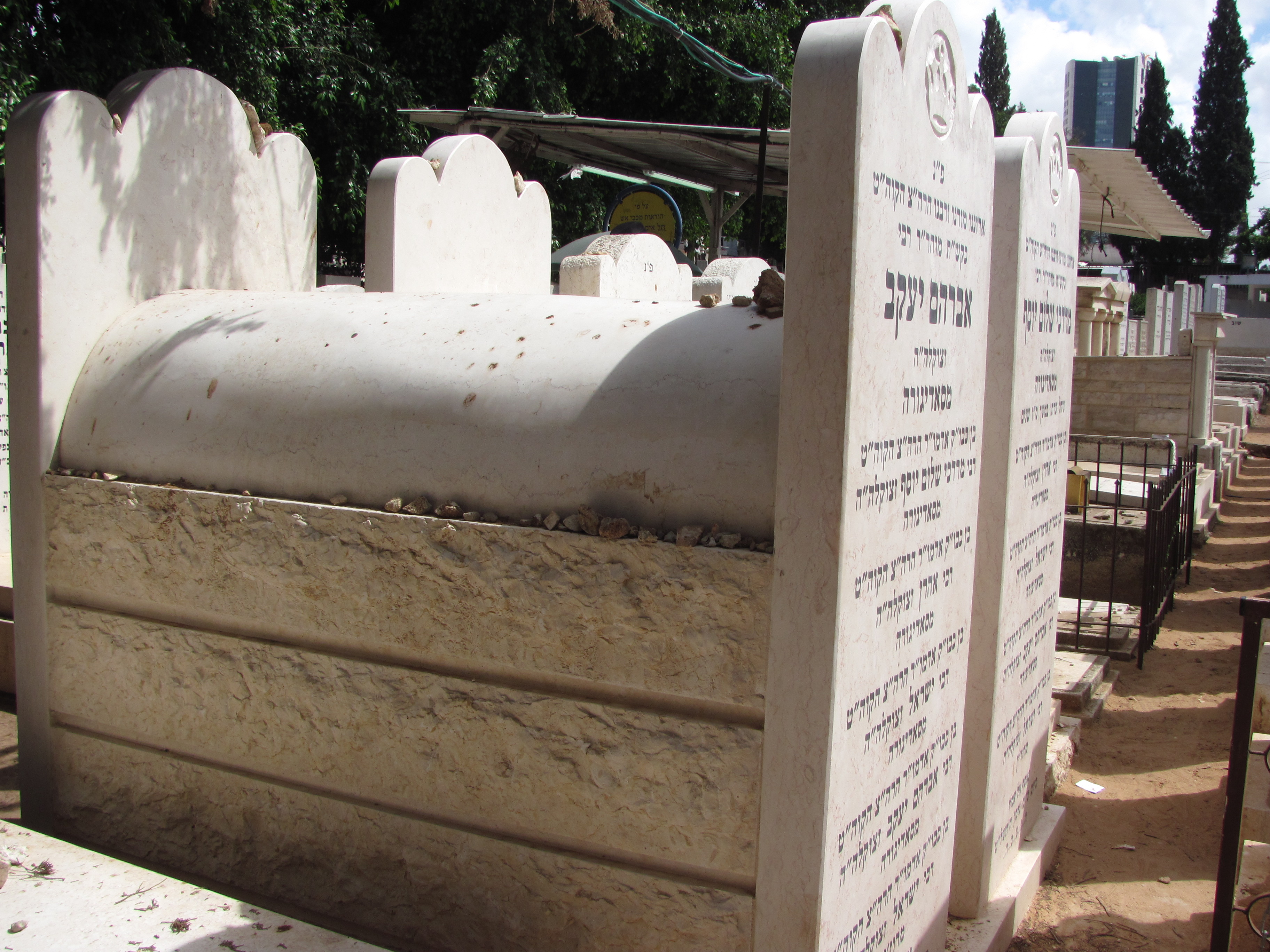 Graves of Rabbi Mordechai Sholom Yosef Friedman (fourth Sadigura Rebbe), right, and his son, Rabbi Avrohom Yaakov Friedman (fifth Sadigura Rebbe), left, in the Nahalat Yitzhak Cemetery, Givatayim (Tel Aviv).